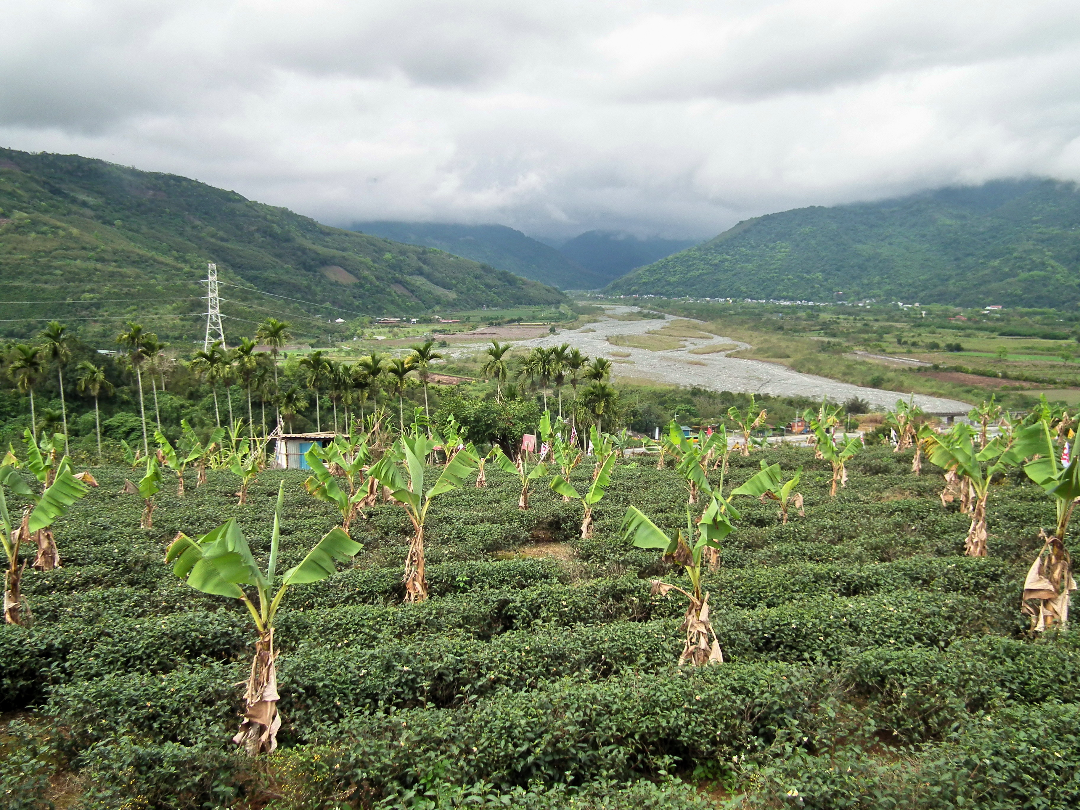 紅葉溪 Hongye River